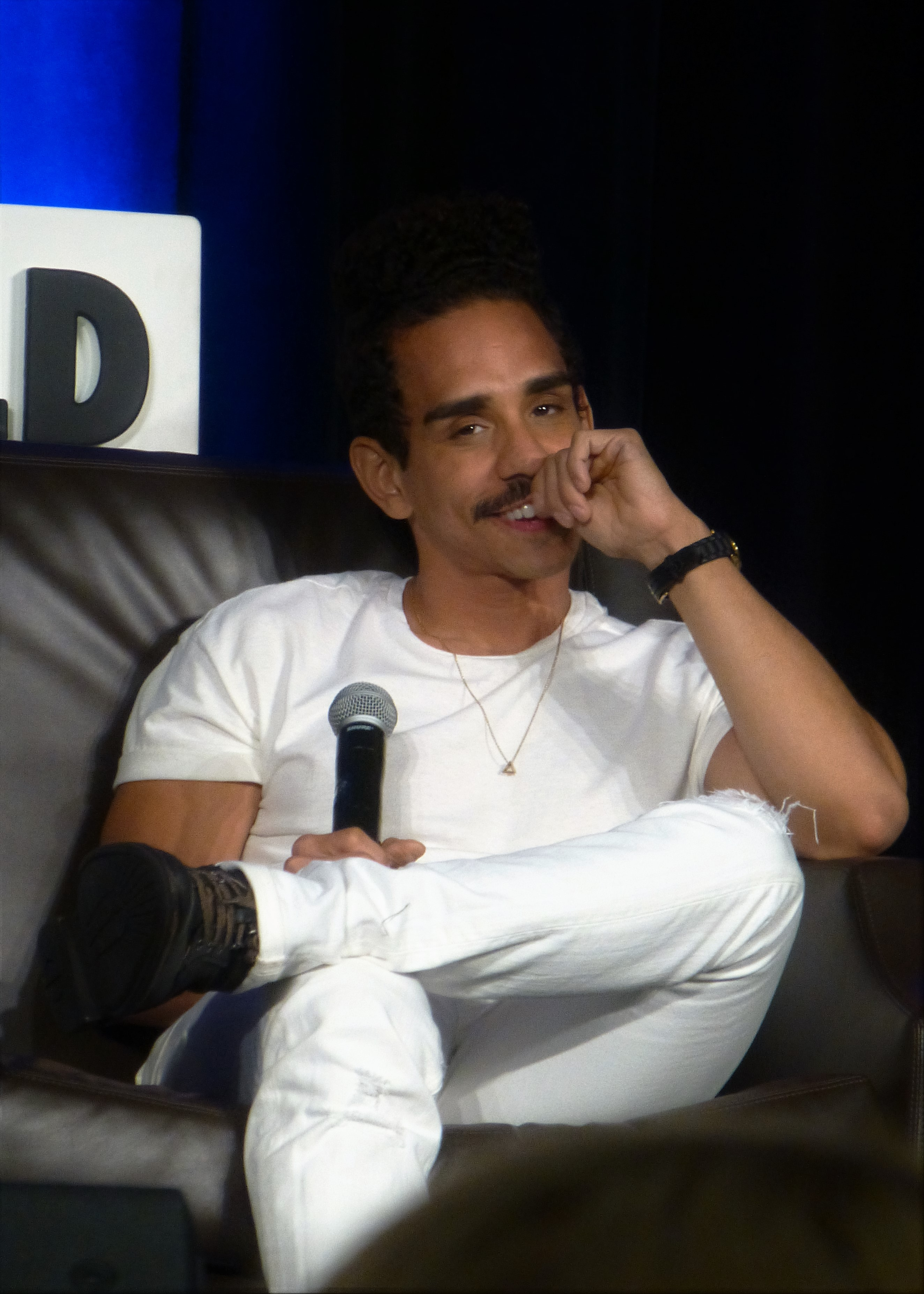 Ray Santiago at the Ash vs Evil Dead panel, 2016 Wizard World in Chicago.